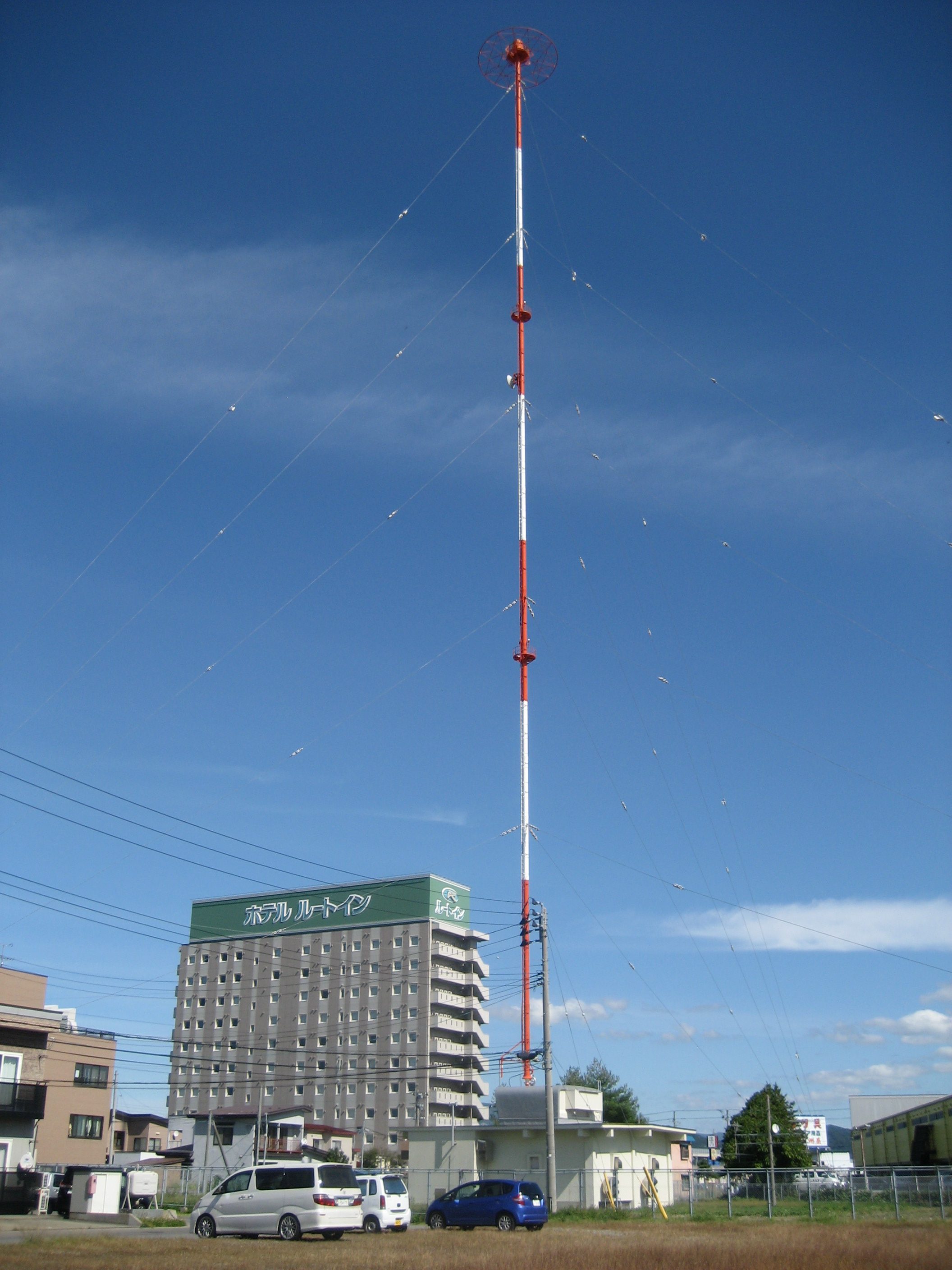 NHK Myoken Radio Transmitting Station in Aomori, Aomori prefecture NHK Radio 1:JOTG 963kHz 5kW NHK Radio 2:JOTC 1521kHz 1kW